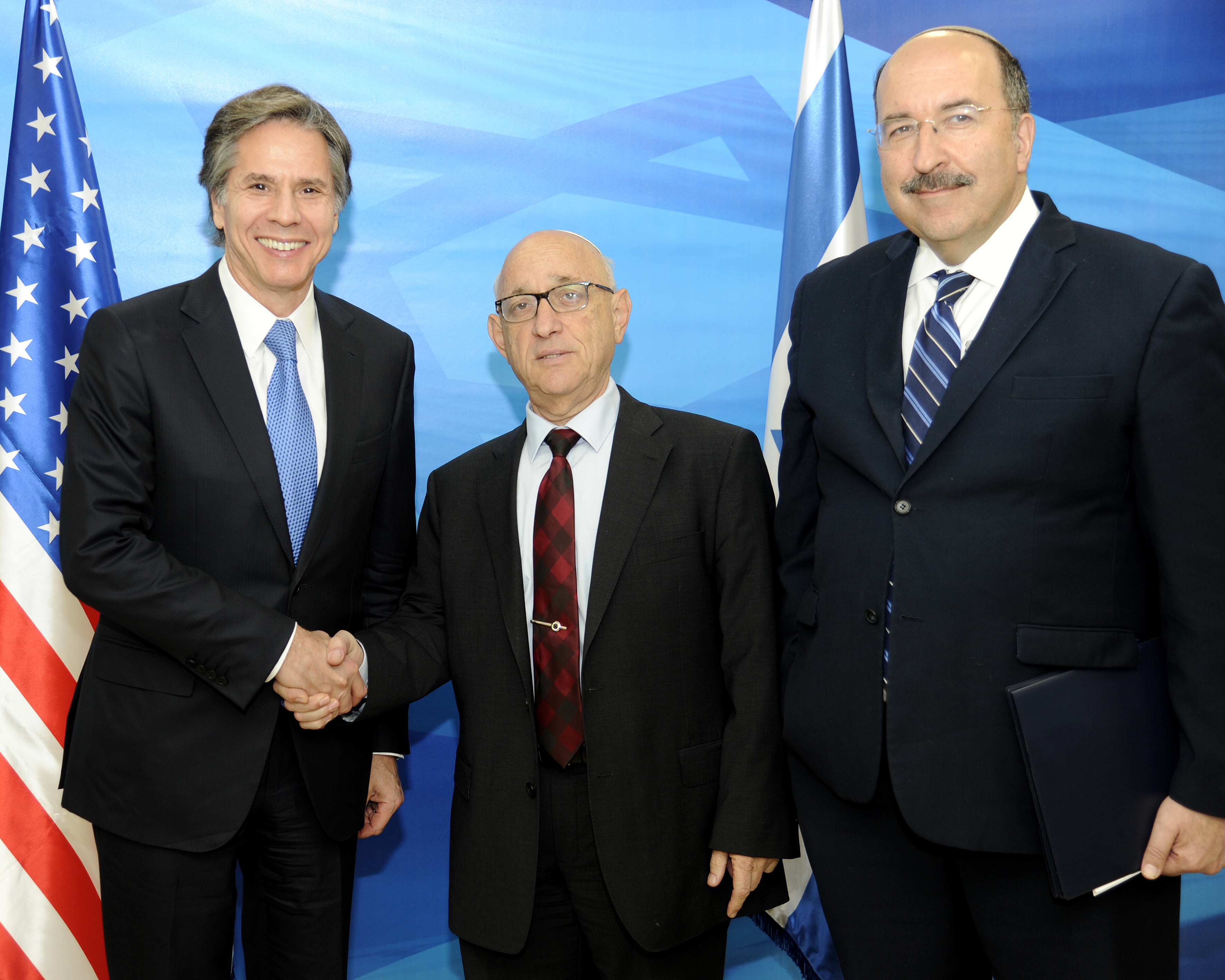 Deputy Secretary of State Antony "Tony" Blinken poses for a photo with Israeli Acting National Security Advisor Jacob Nagel and Director-General of the Israeli Ministry of Foreign Affairs Dore Gold at the start of the U.S.-Israel Strategic Dialogue in Jerusalem on June 16, 2016. [U.S. Embassy Tel Aviv photo by David Azagury/ Public Domain]